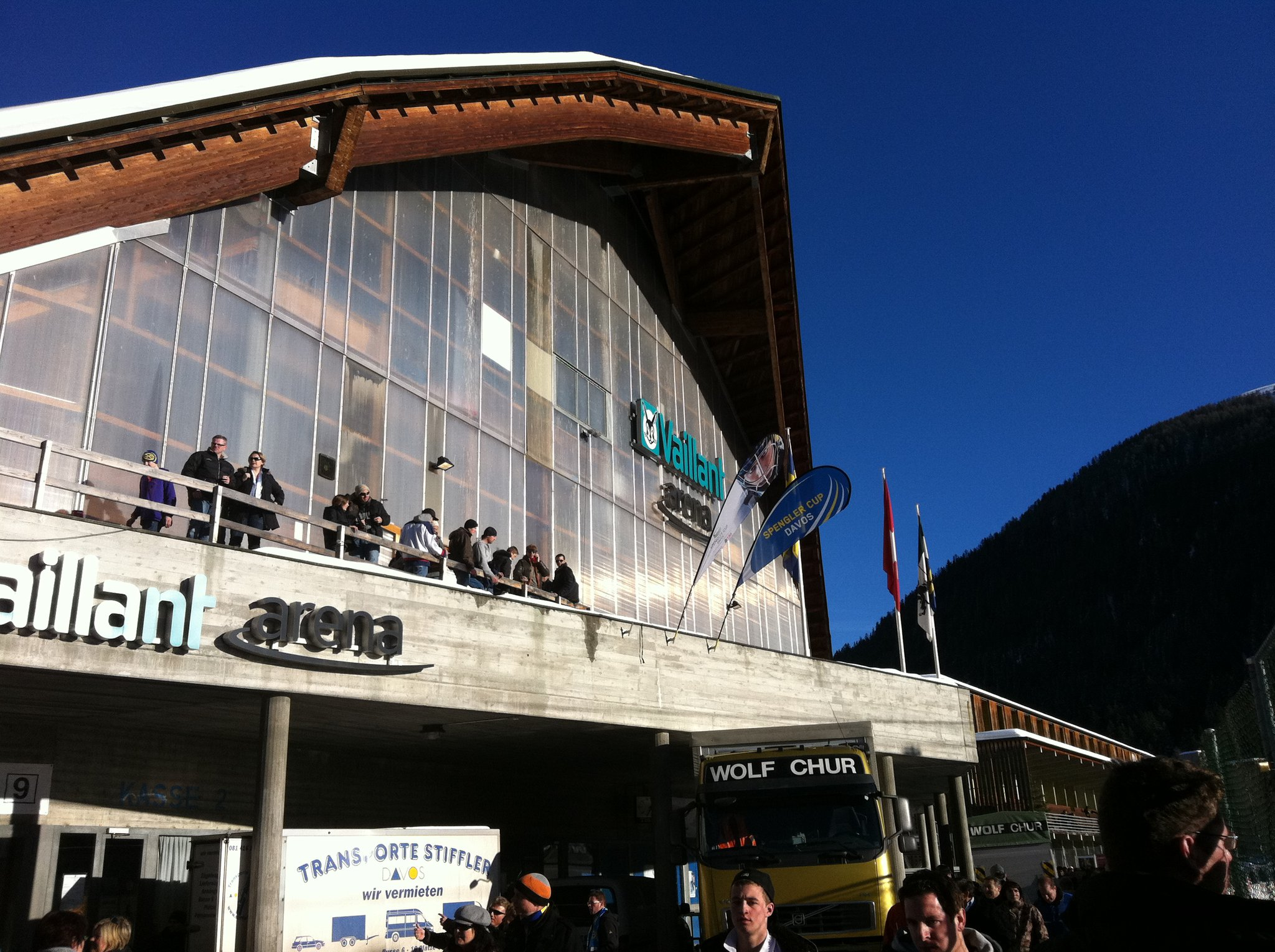 südtribüne.vailant.arena.davos.outside